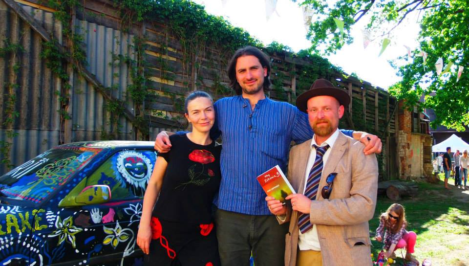 Justin Petrone, center, with Epp Petrone (left) and British-Latvian author Mike Collier (right) in Viljandi, Estonia, June 6, 2015